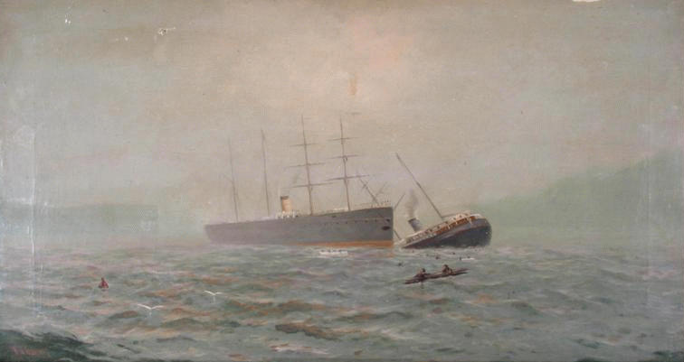 Painting of the collision of the Oceanic and the City of Chester, near Fort Point and the Golden Gate in San Francisco Bay, 1888. Signed "Gilbert" by Robert Gilbert, the artist. oil on canvasmedium QS:P186,Q296955;P186,Q4259259,P518,Q861259